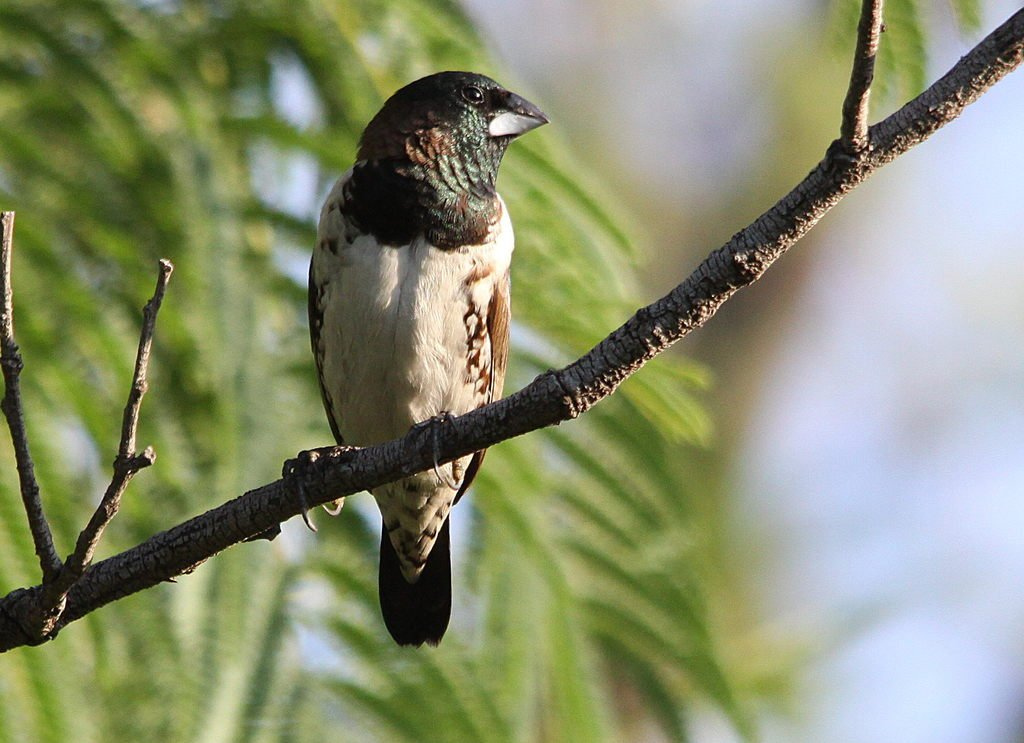 Bronze mannikin (or Bronze munia) perched in an Acacia caffra tree in Johannesburg, South Africa